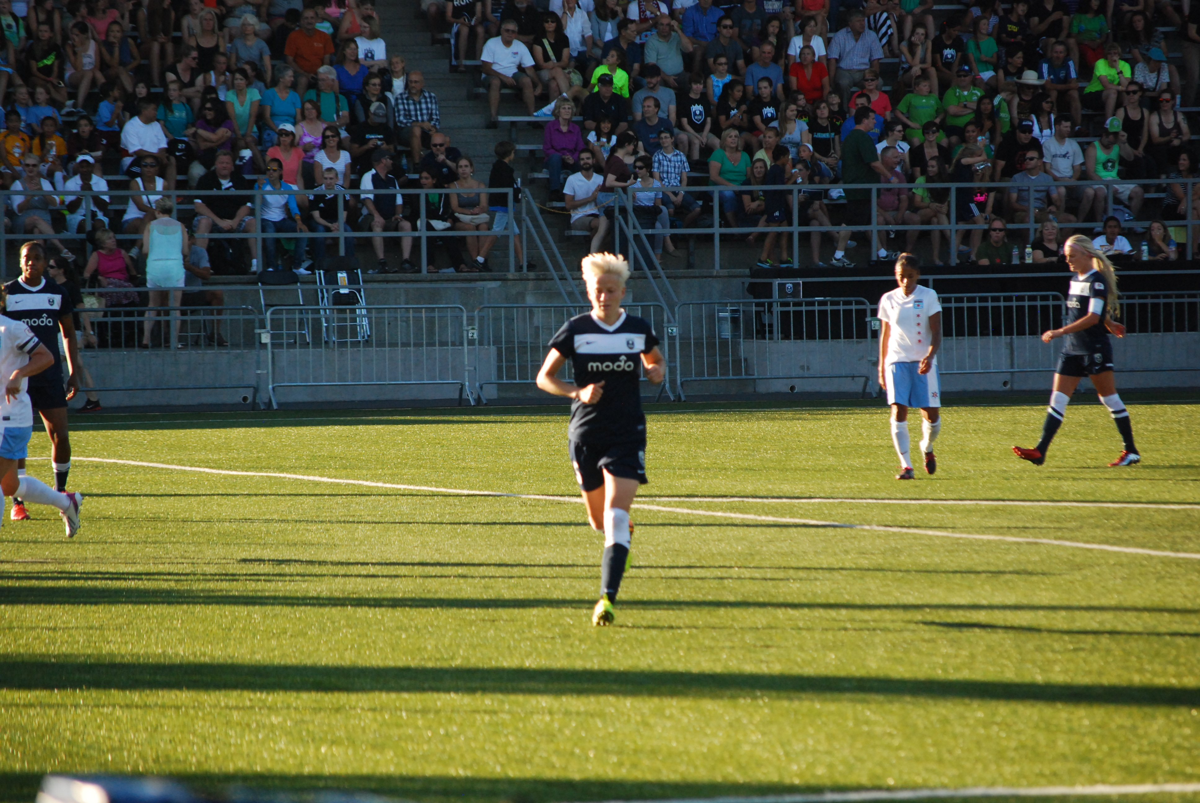 Megan Rapinoe during a match against the Chicago Red Stars on July 25, 2013 in Tukwila, Washington.